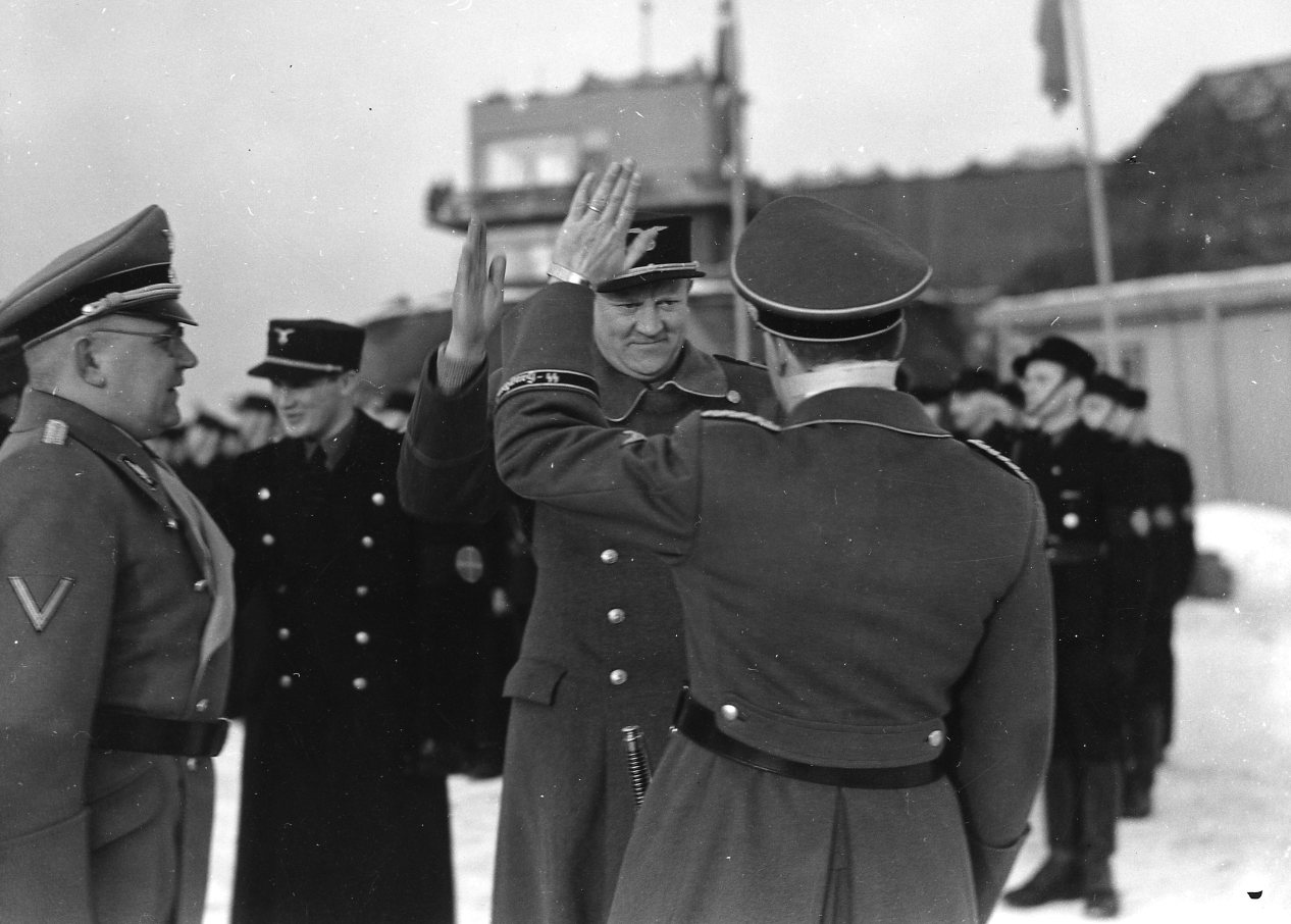 Flickr-album of 55 photos, description by Riksarkivet (National Archives of Norway): Vidkun Quisling, head of the collaborationist government in Norway from 1942 to 1945 during the German occupation in World War II, made ​​several trips to Germany in the period 1939-1945, and he had a total of 11 meetings with Adolf Hitler. Four of the meetings were state visits, and one of them took place in Berlin on 12-15. February 1942. In addition to the newly appointed Minister President, the group consisted of ministers Hagelin, Fuglesang and Stang and also Thorvald Thronsen, chief of staff in the Hird - the party's paramilitary organisation modelled on the Nazi German Sturmabteilungen.